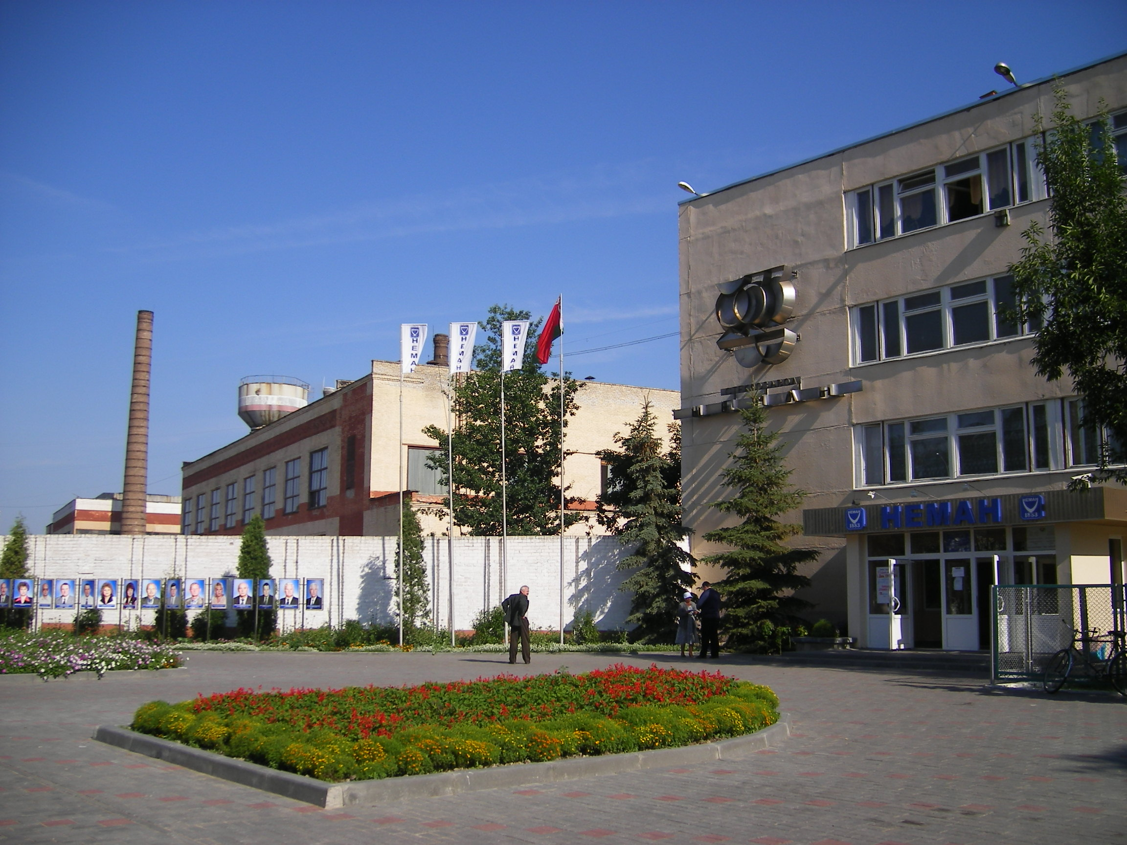 Byarozavka (Lida district), Neman glass factory